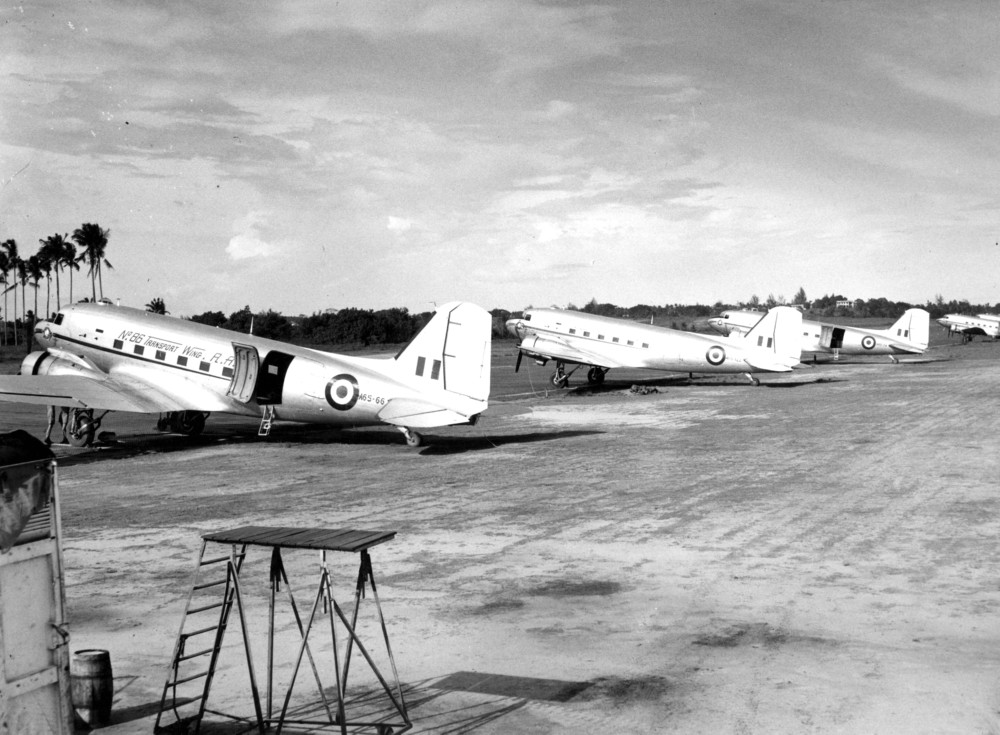 Douglas Dakota aircraft assigned to No. 38 Squadron RAAF at RAF Changi in Singapore